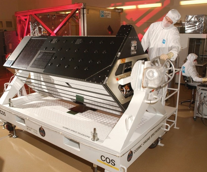 The Cosmic Origins Spectrograph